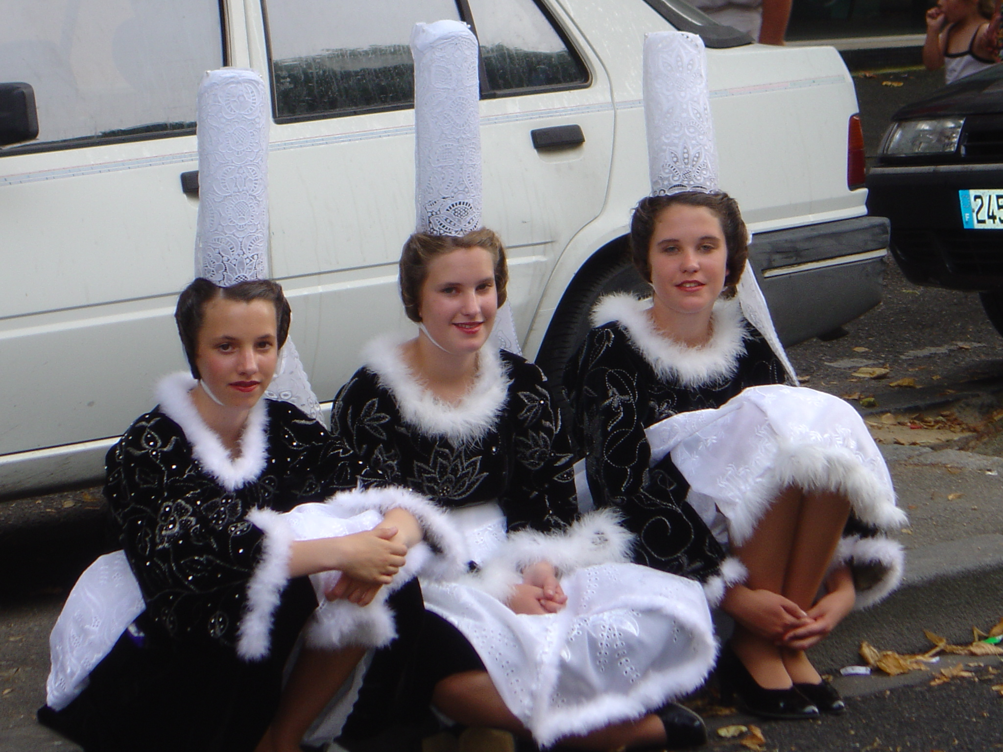 Britton dancers wearing traditionnal clothes during the Interceltic Festival in Lorient, France.